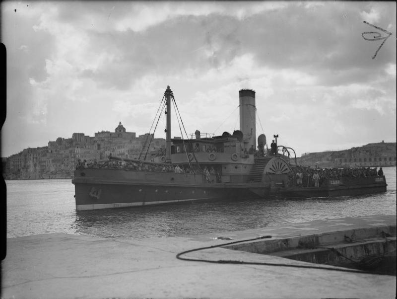 The Royal Navy during the Second World War The Paddle Tug ANCIENT bringing British troops ashore from the BRECONSHIRE (which had arrived at Grand Harbour, Valletta, Malta with supplies and troops for the Island).